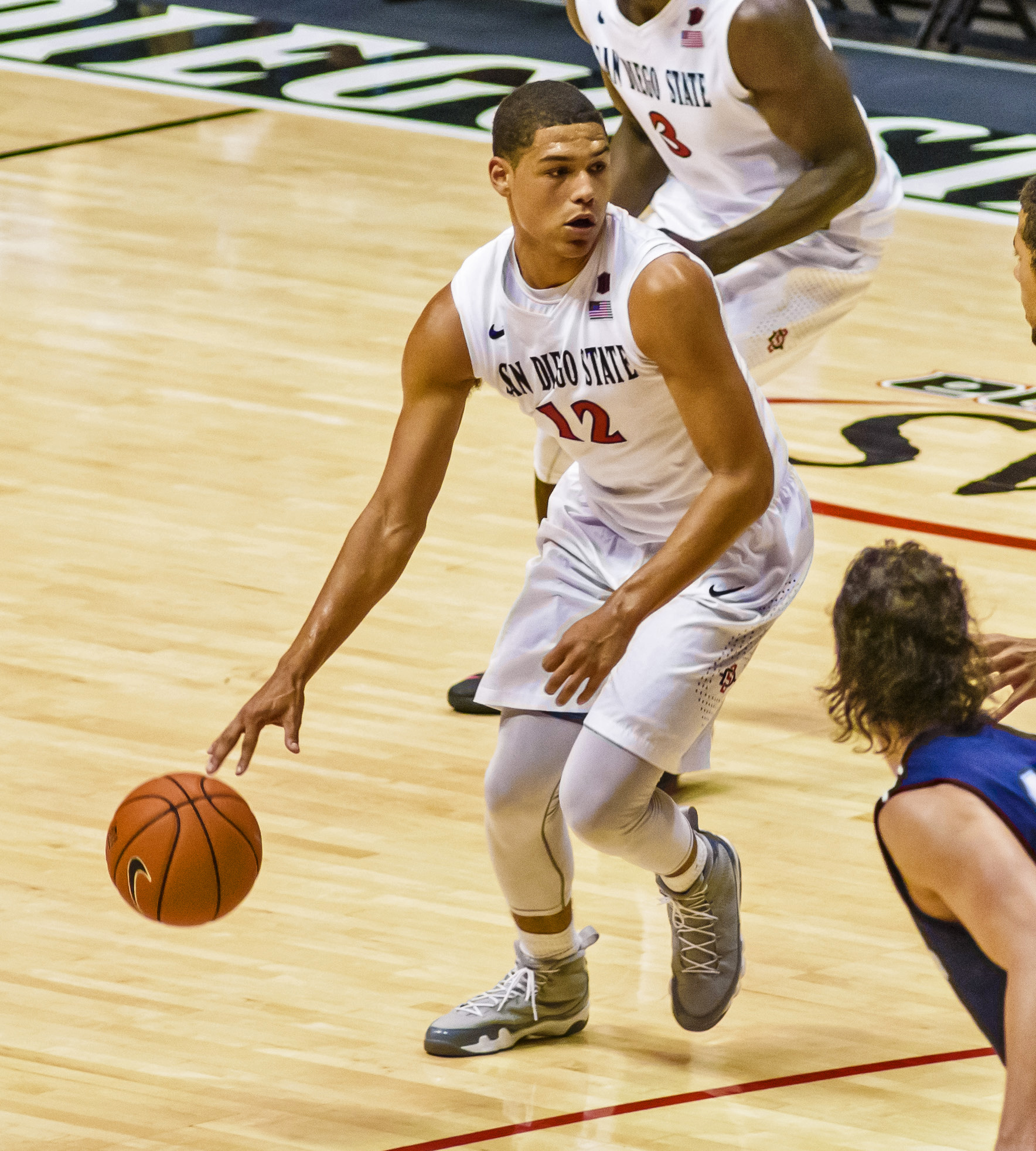 Trey Kell, college basketball player for the San Diego State Aztecs on Dec 4, 2014